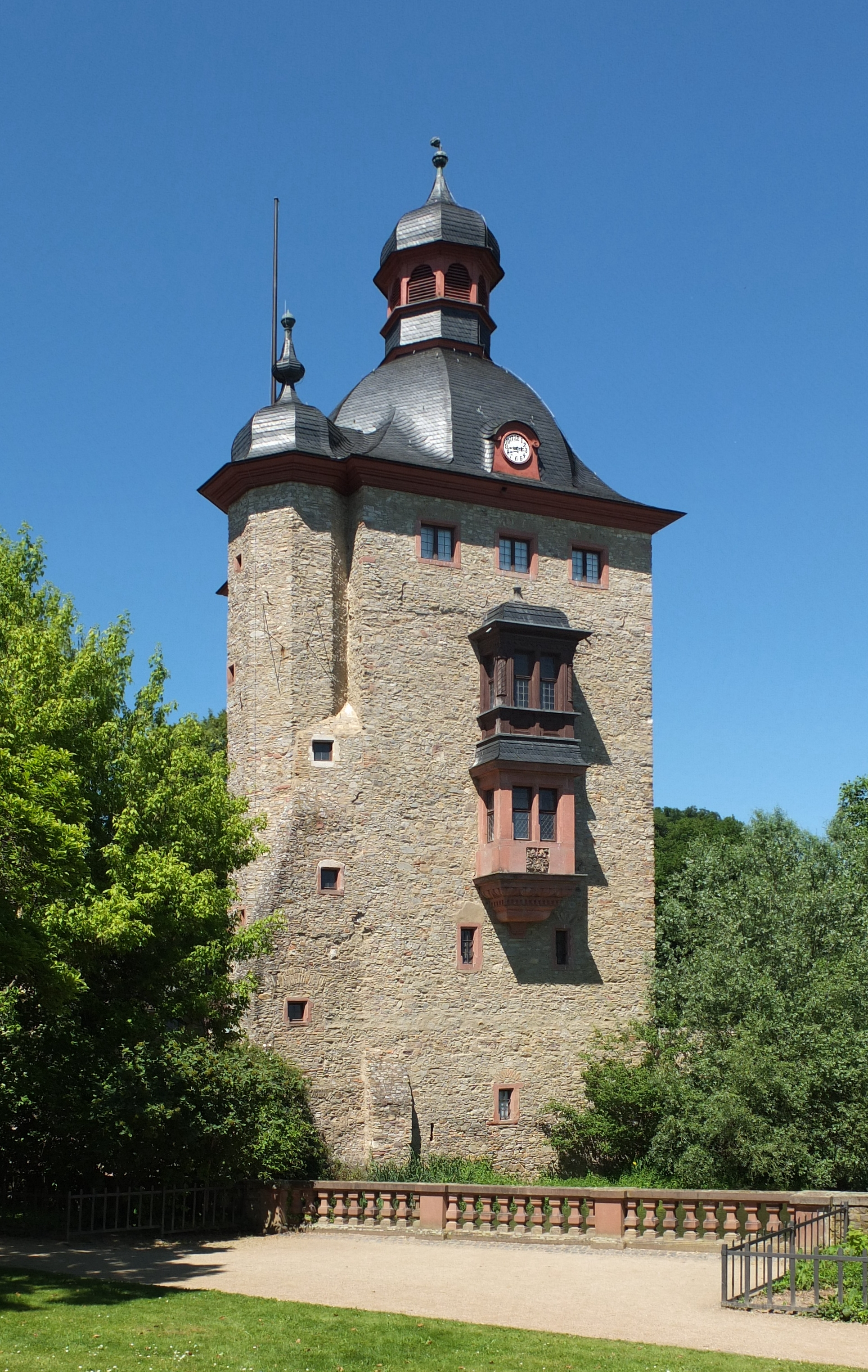 Tower of Schloss Vollrads, 14th-19th ctry., Rheingau-Taunus-Kreis, Germany (view south).